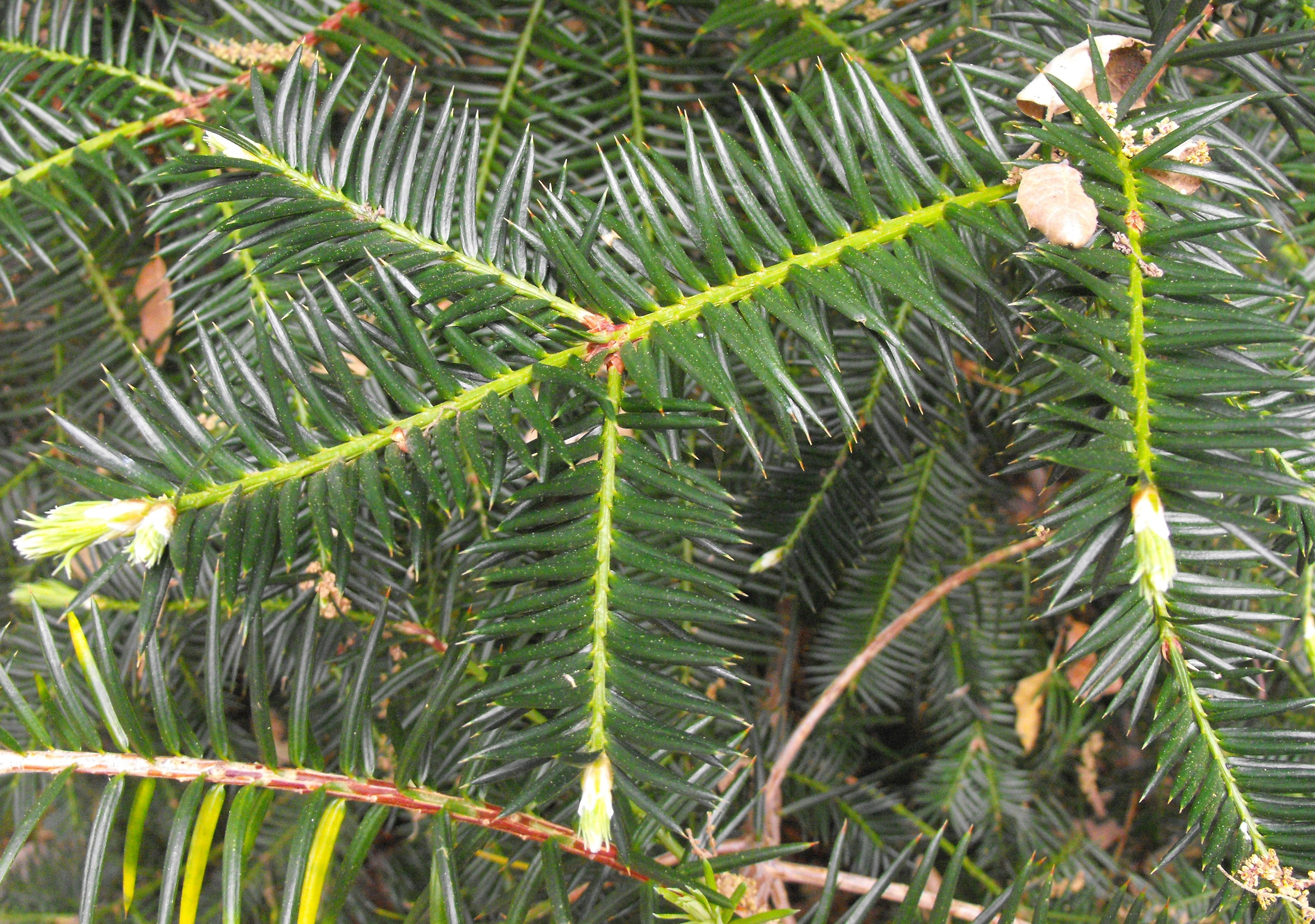 Torreya californica at Rancho Santa Ana Botanic Garden in Claremont, California, USA. Identified by sign.